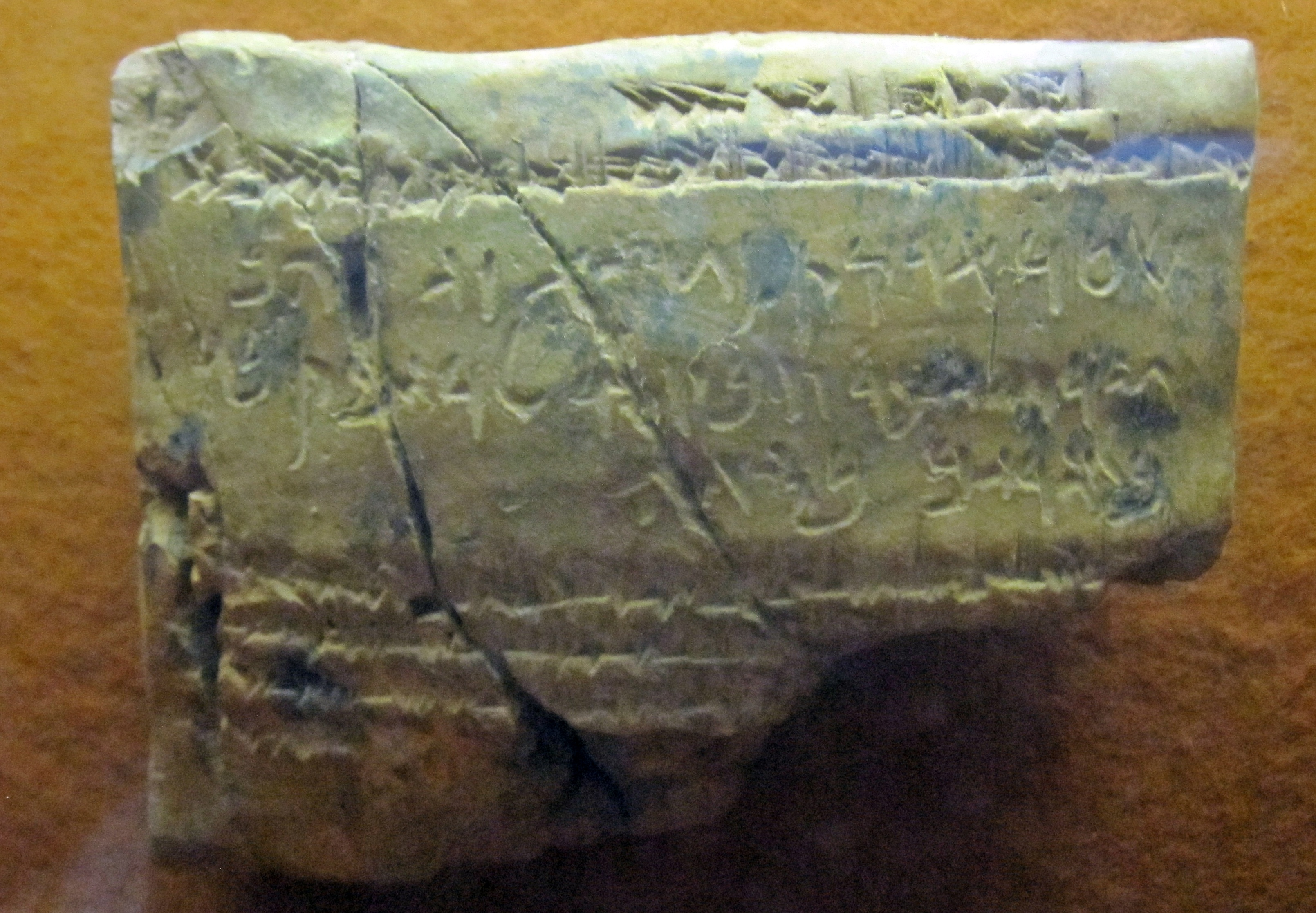 Photo of Exhibit at the Diaspora Museum, Tel Aviv - Beit Hatefutsot. The note reads: A lease of land, written in cuneiform in clay tablet, with comments in Aramaic. Nippur, Babylonia, 5th century BCE, Facsimile. The tablet was found in the archives of the sons of Murashu, a family of jewish merchants in Babylonia. There is evidence of a considerable jewish population in the vicinity of Nippur at the time of Ezra and Nehemiah